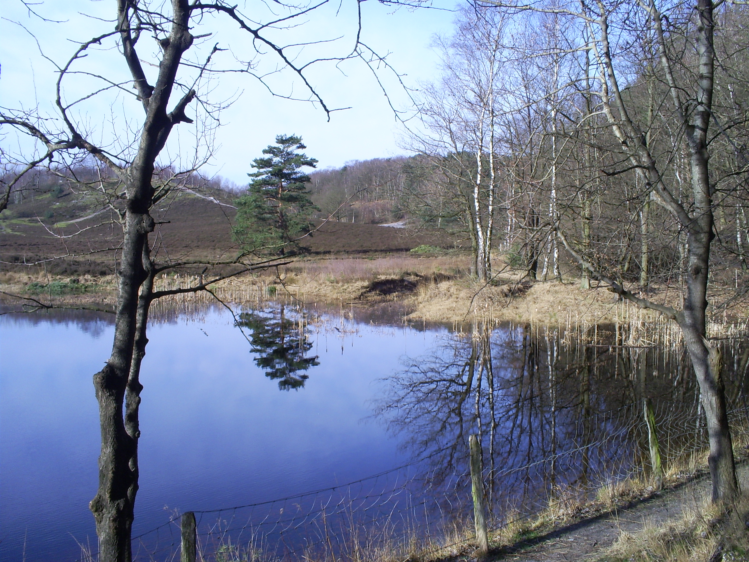 Schrieversheideven, Brunssummerheide, Heerlen, The Netherlands